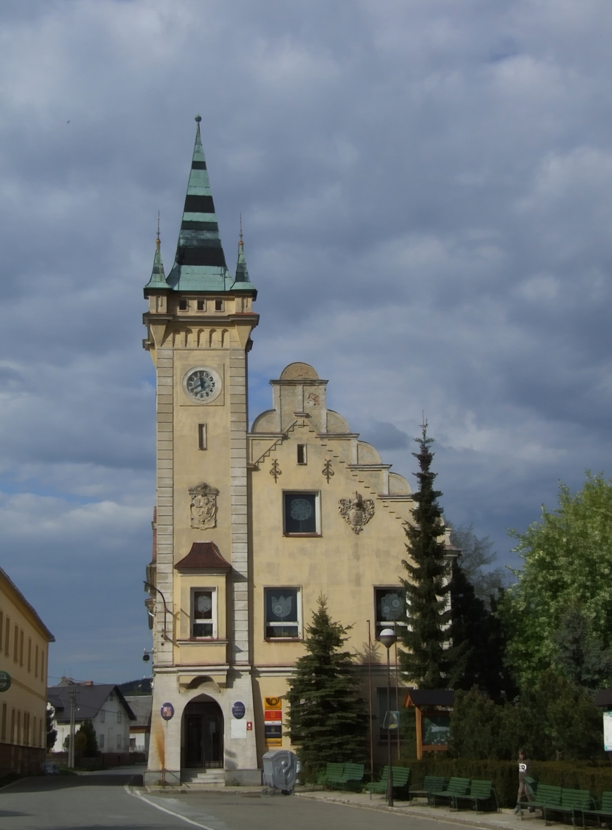 Branná (in